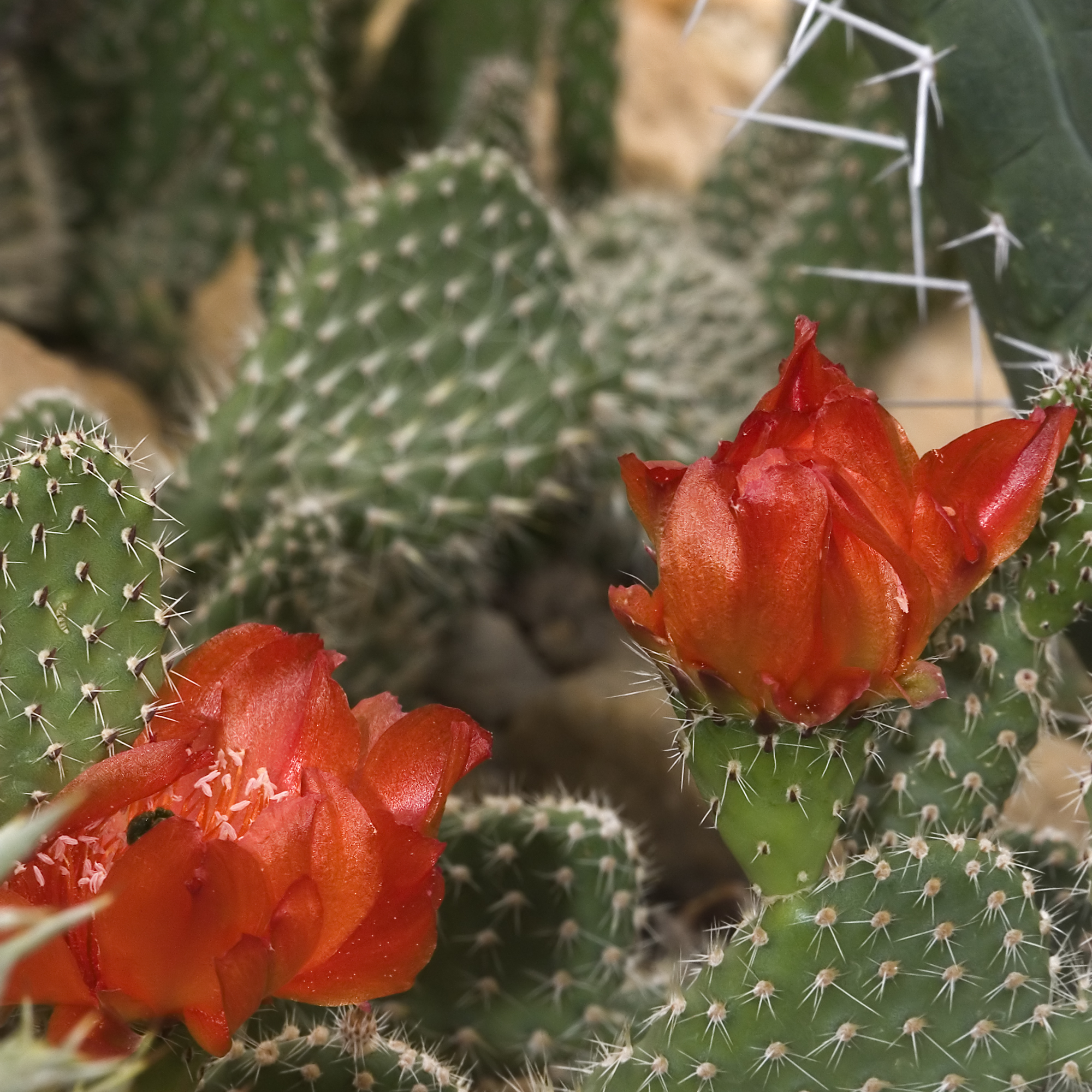 Opuntia picardoi Location: Dresden, Botanical Garden (Saxony, Germany) 5/180L f16 Film / Speed: ISO 800 Comment: Canon Flash 580EX